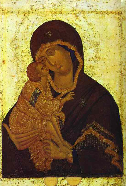 Our Lady of the Don, painted by Theophanes the Greek for the Annunciation Cathedral in Moscow.